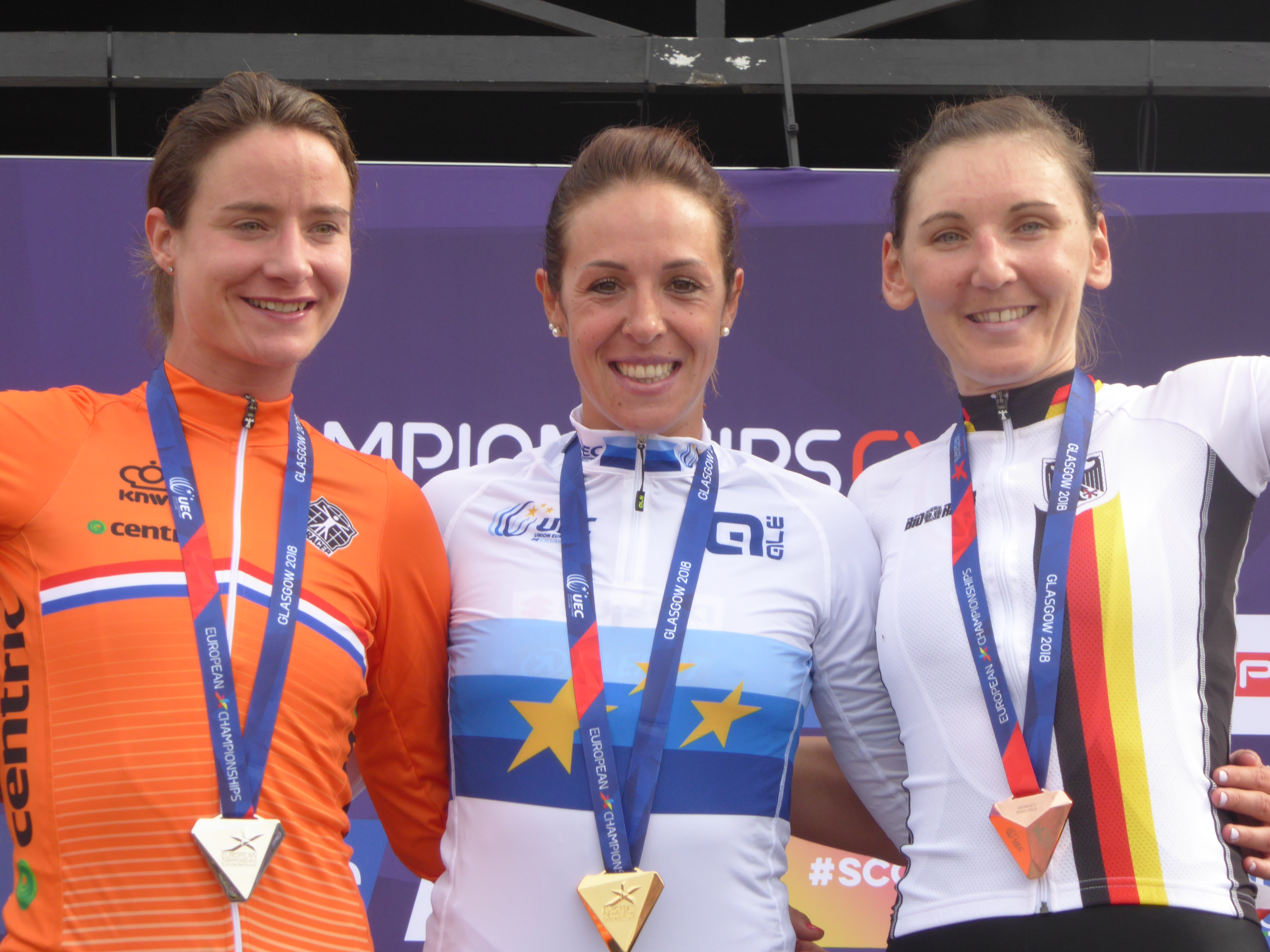 The podium finishers in the women's road race at the 2018 UEC European Road Cycling Championships in Glasgow; from left to right: Marianne Vos (Netherlands; silver), Marta Bastianelli (Italy; gold) & Lisa Brennauer (Germany; bronze).